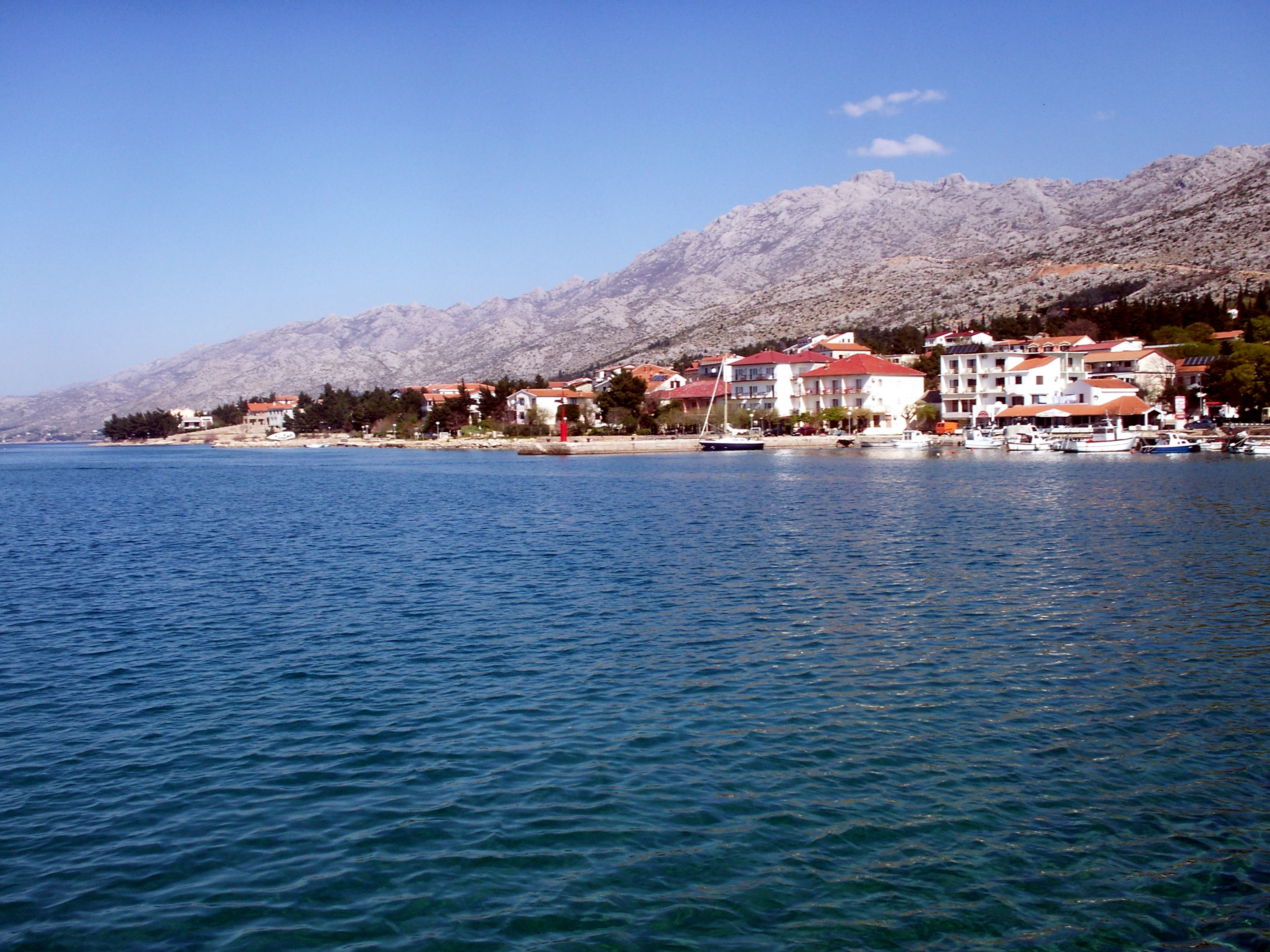 Harbour of Starigrad / Zadar county in Croatia.